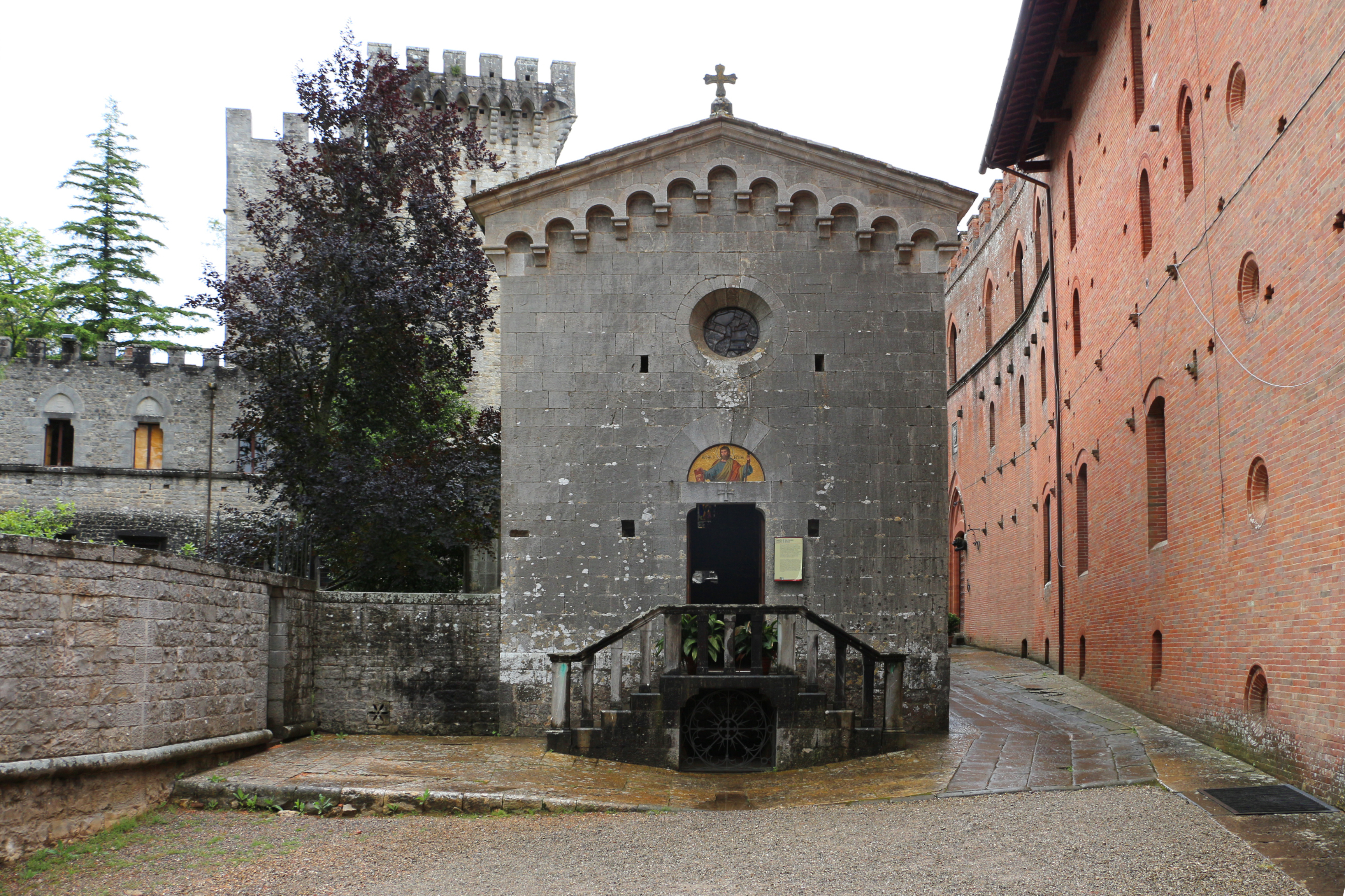 Castello di Brolio - Chapel of San Jacopo